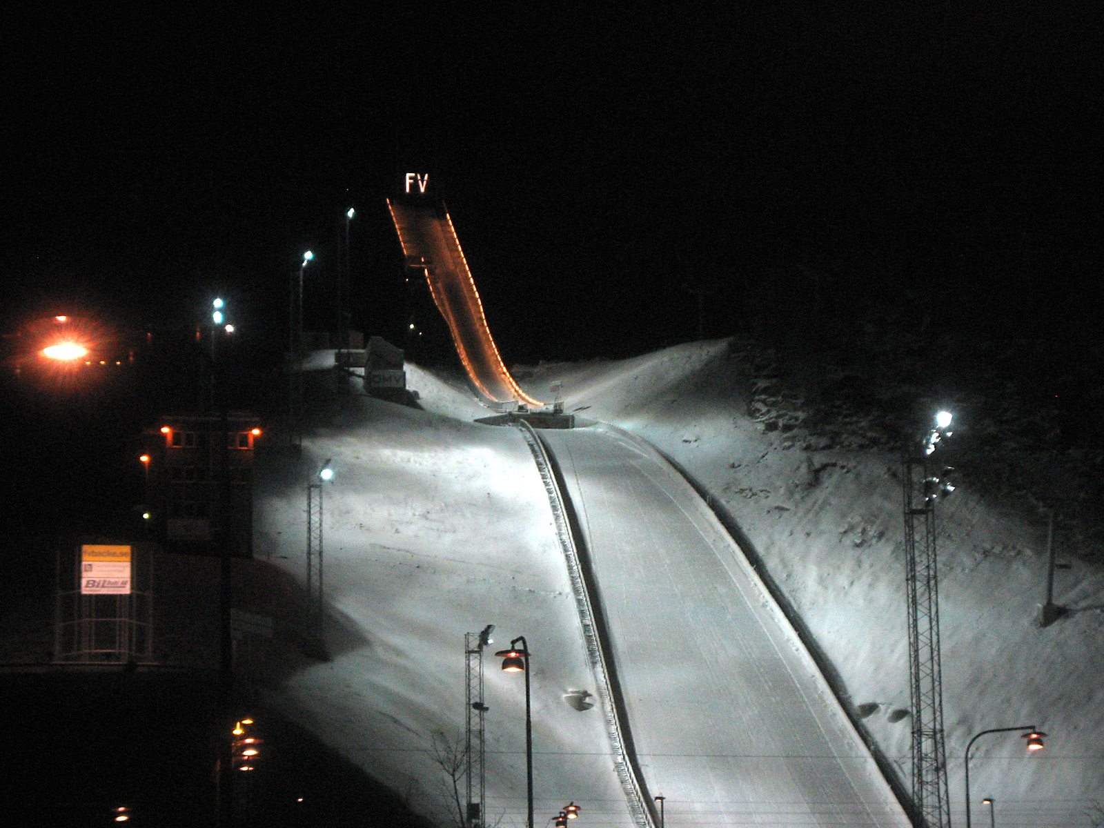 Paradiskullen in Örnsköldsvik, Sweden, at night.